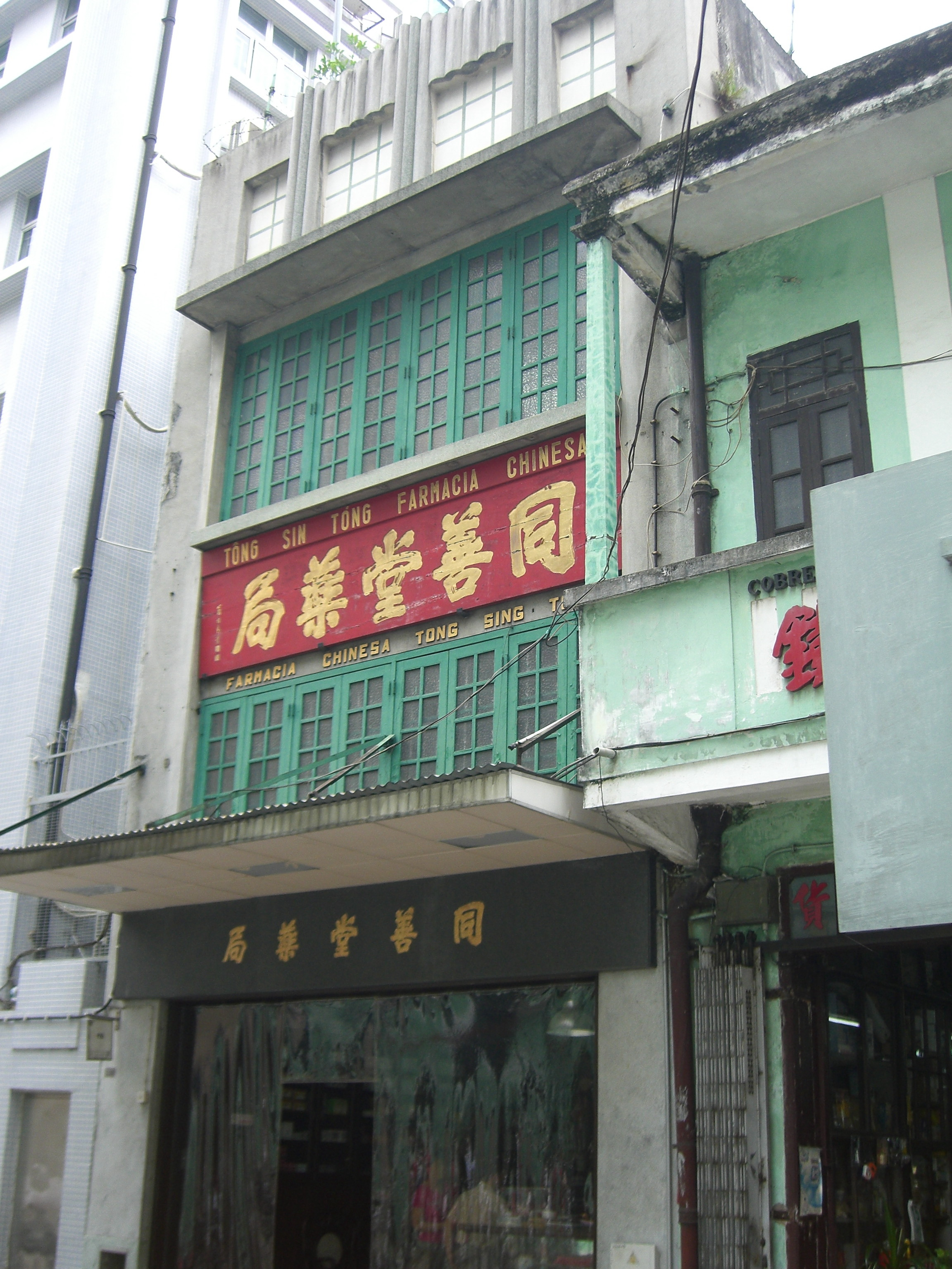 Tông Sin Tóng Farmacia Chinesa in Macau